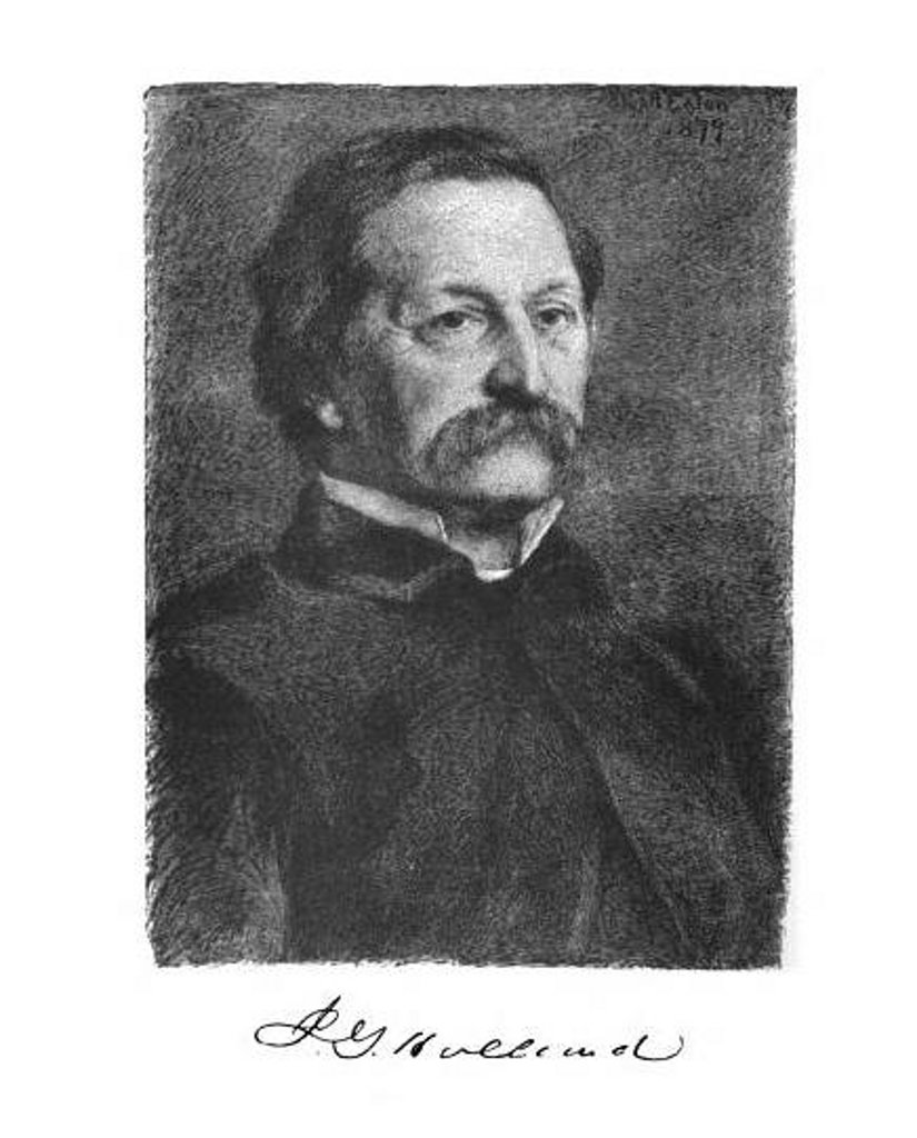 Josiah Gilbert Holland (July 24, 1819 – October 12, 1881) was an American novelist and poet who also wrote under the pseudonym Timothy Titcomb.